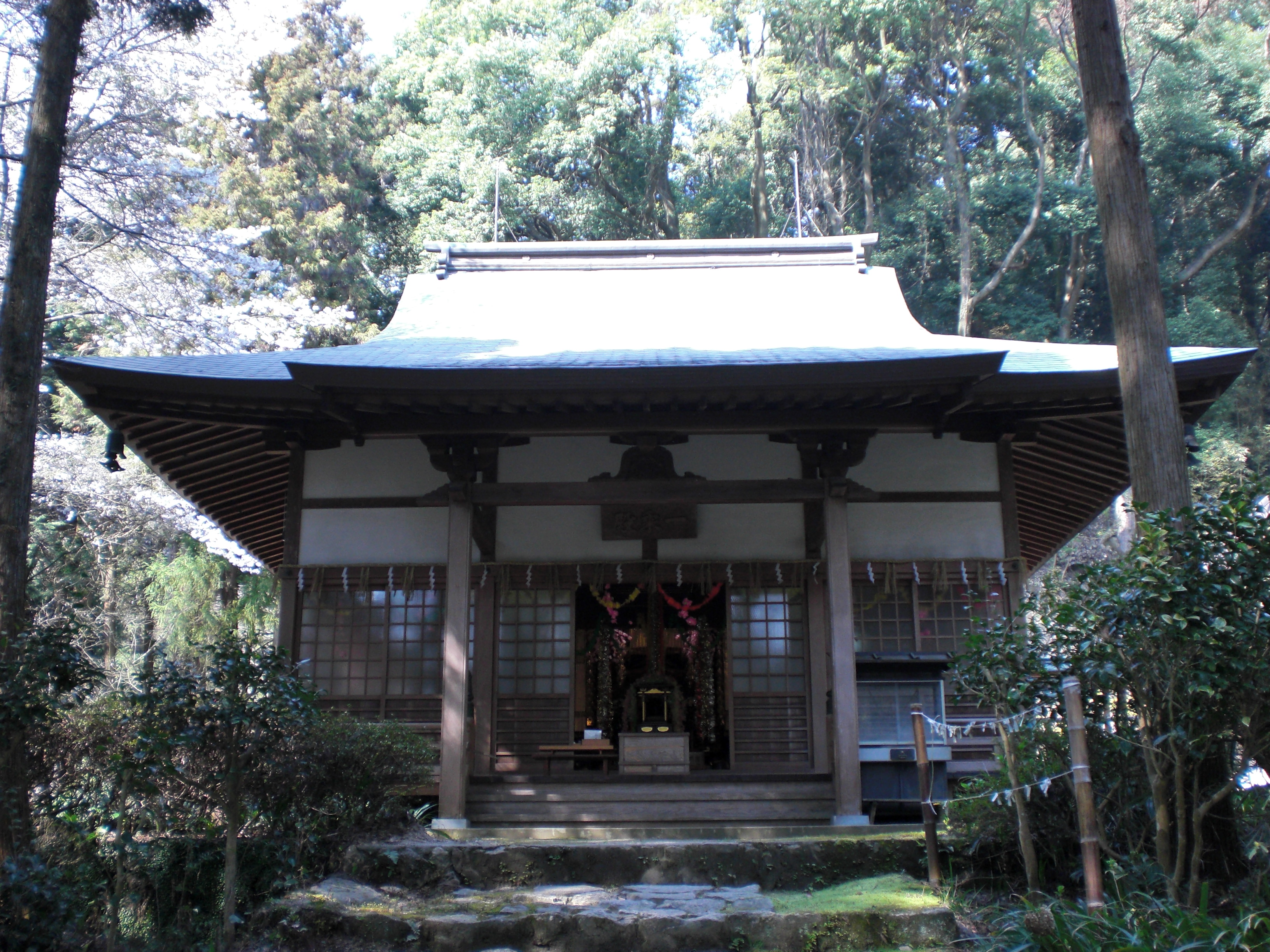 daishinji-hondo